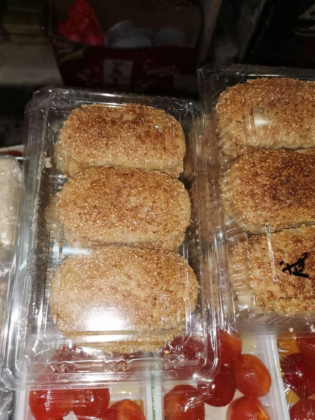 One kind of Shaobing in Chingzhou, a city in China.